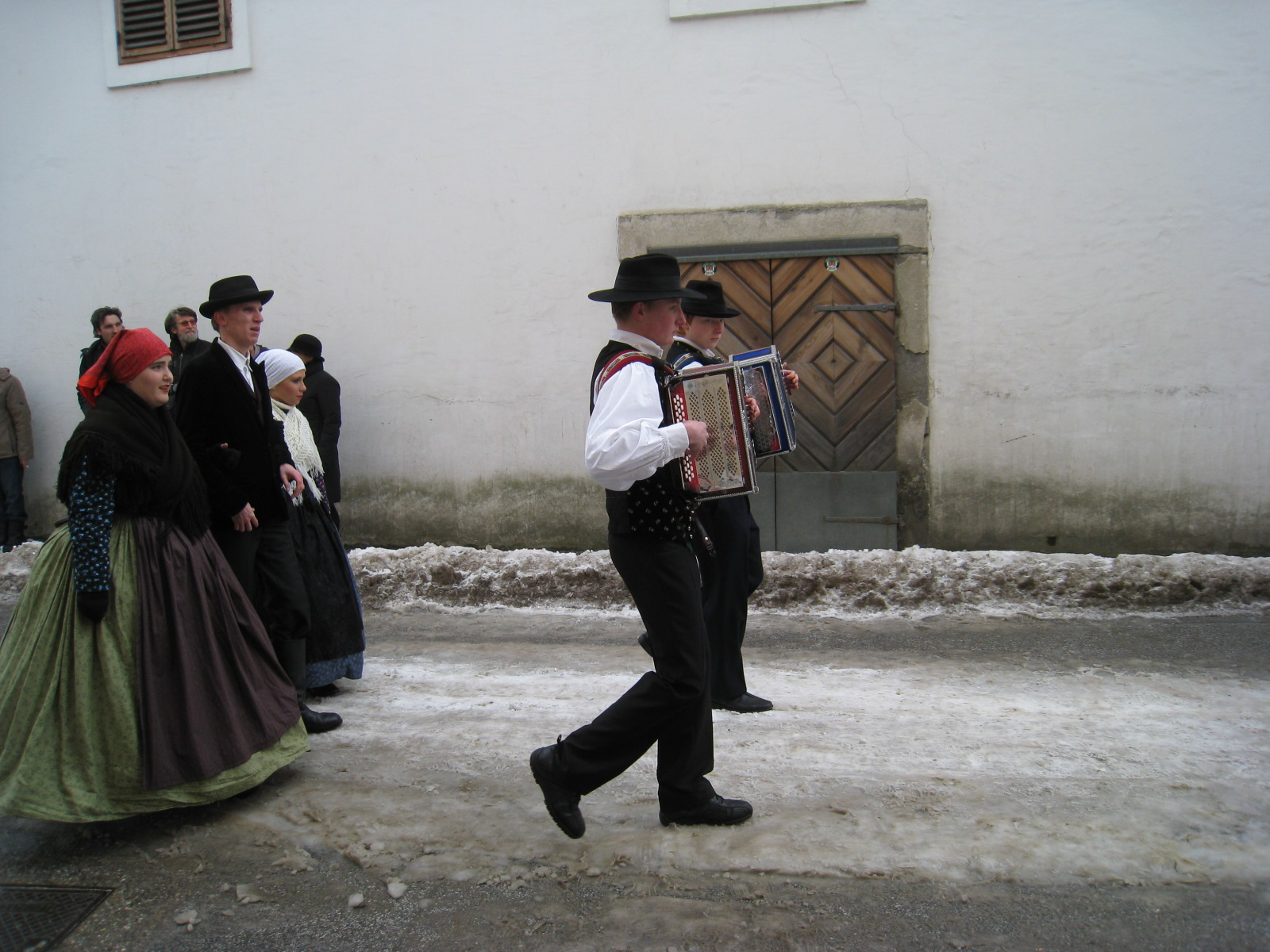 Accordion duet at Kurentovanje in Ptuj, Slovenia. Harmonski duet na Kurentovanju na Ptuju.